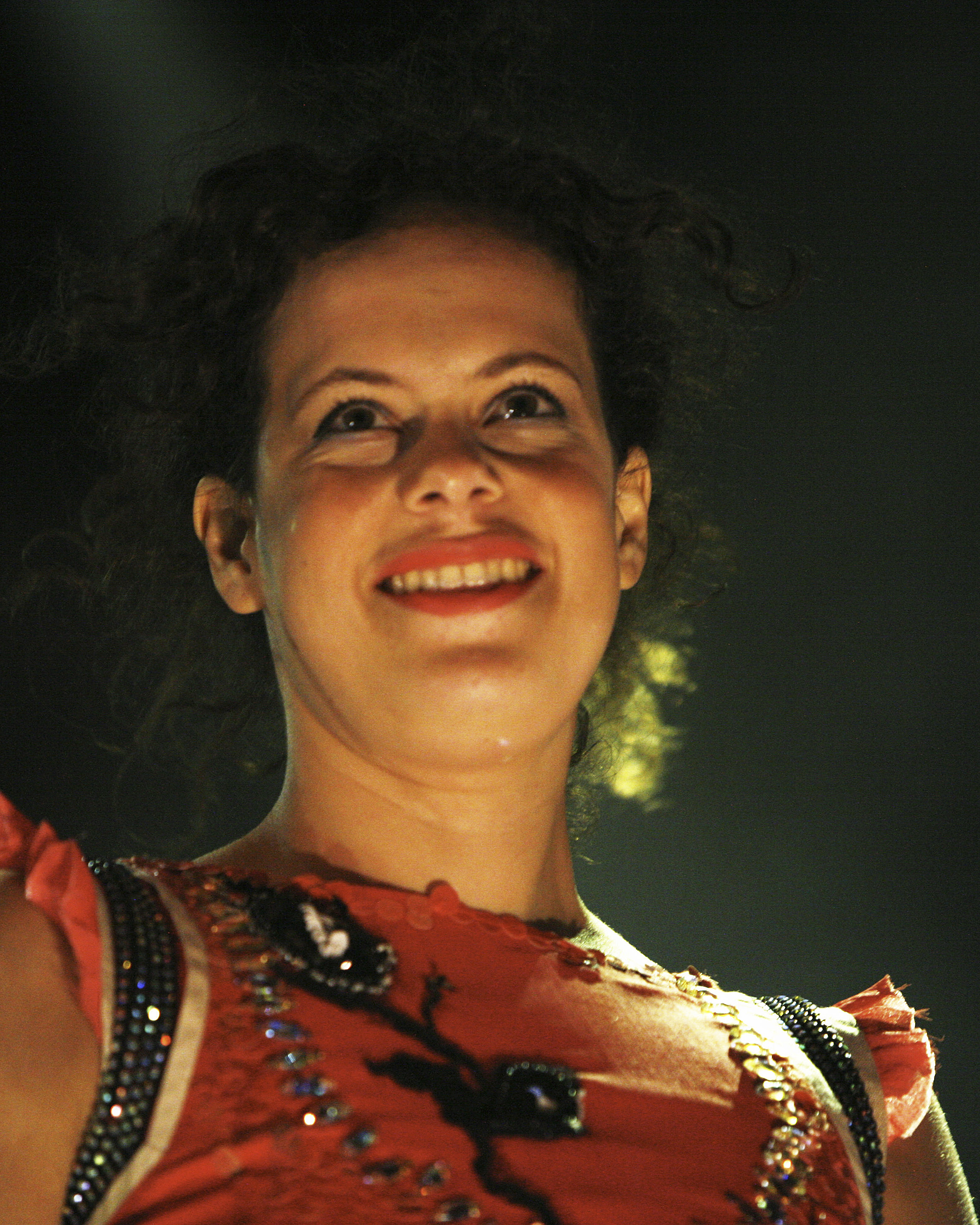 Arcade Fire at the Eurockéennes of 2007